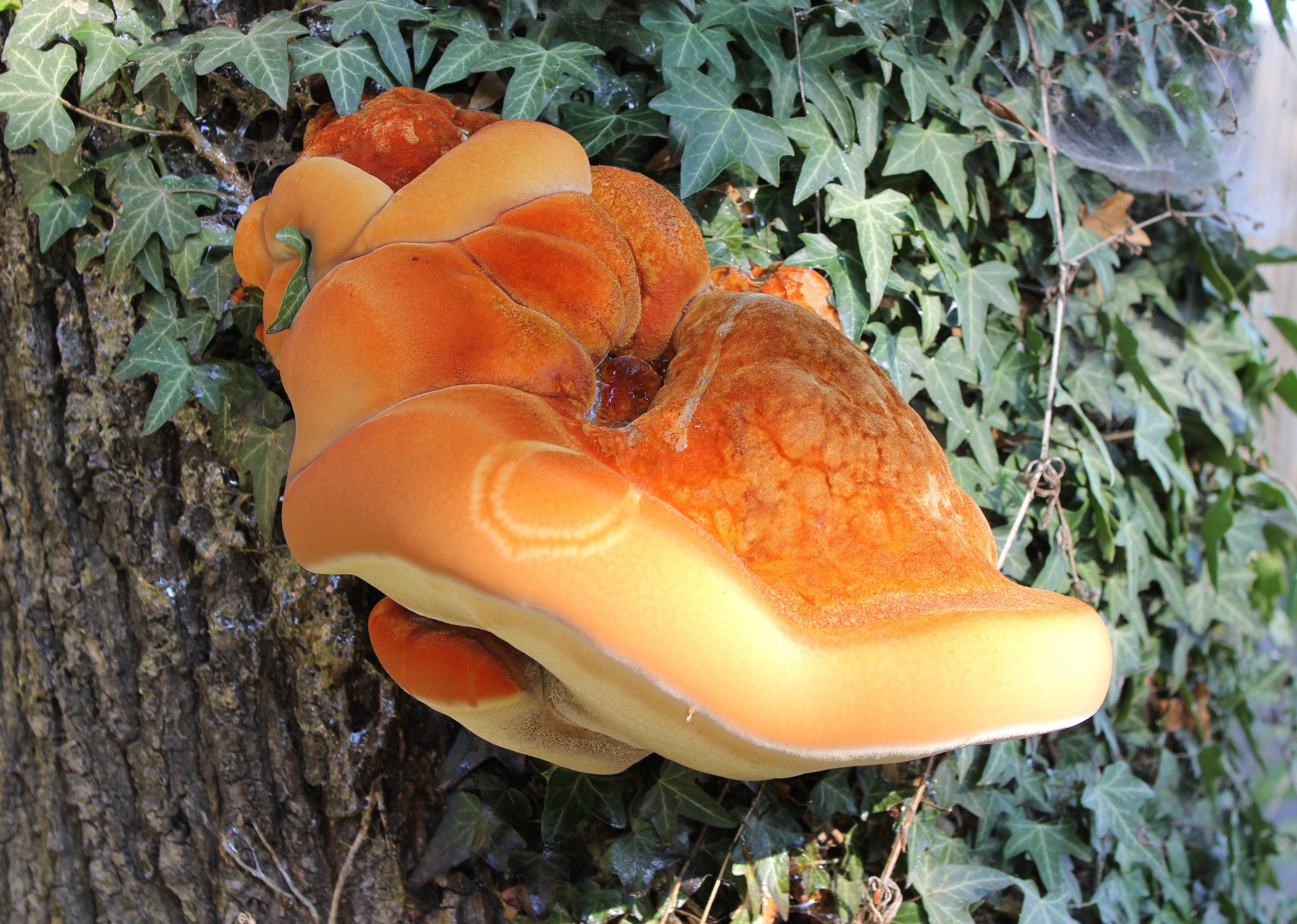 Inonotus hispidus, Shaggy Bracket growing on an Ash tree. Taken in Enfield, UK